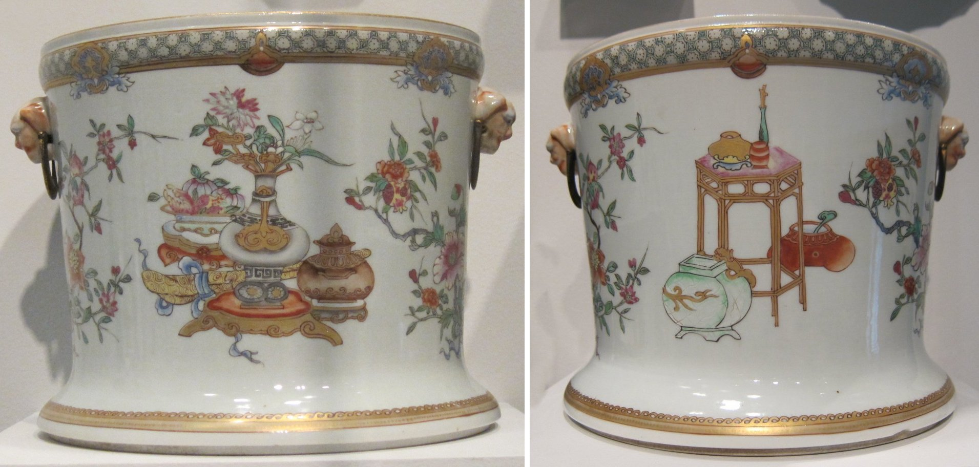 Pair of wine coolers, late 19th to early 20th century, Samson, hard-paste porcelain, Honolulu Museum of Art